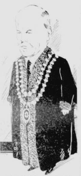 Original Caption: MELBOURNE'S LORD MAYOR Hon. J. G. Aikman, J.P., M.L.C.